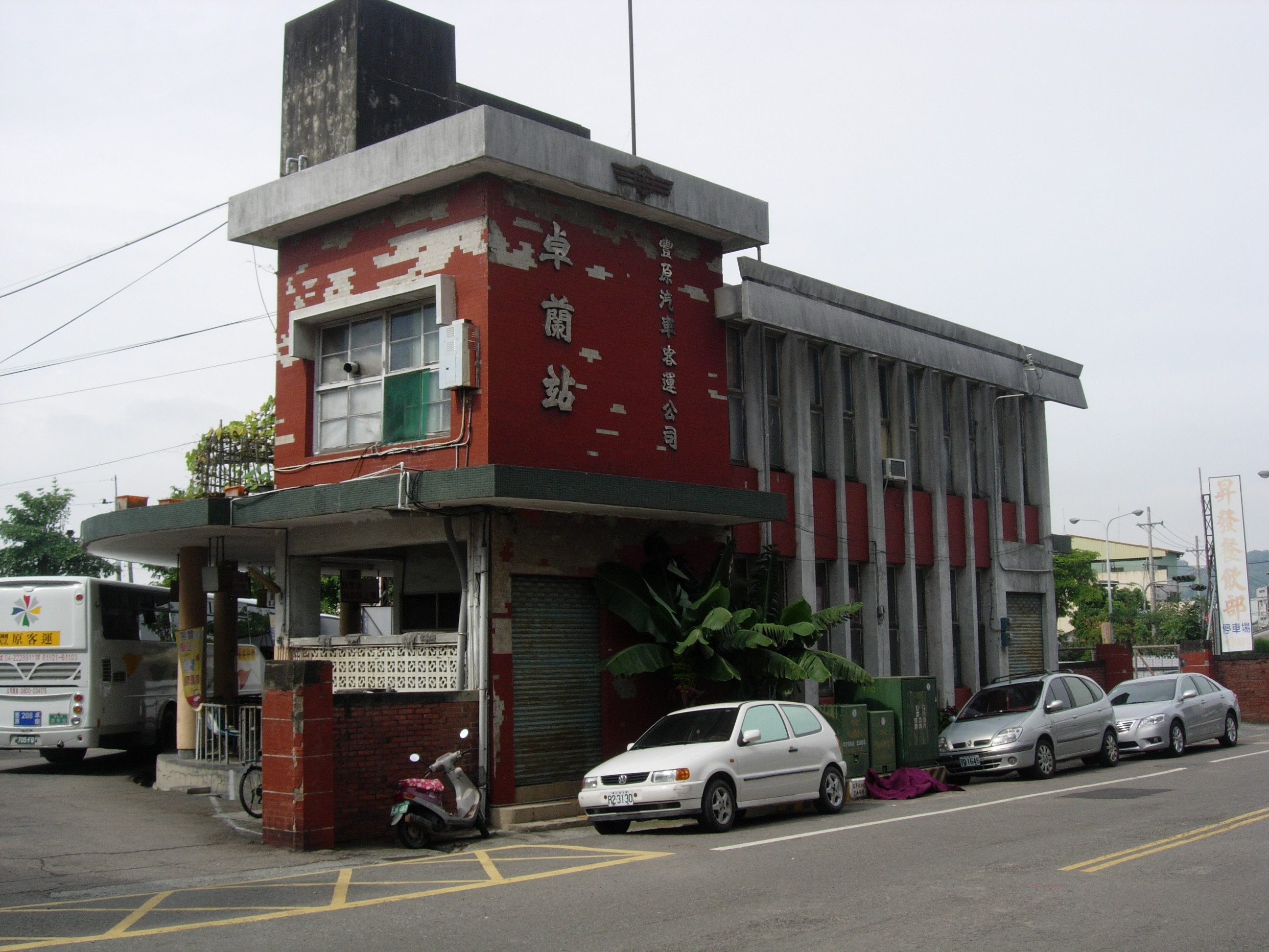 Fengyuan Bus Jhuolan Station2